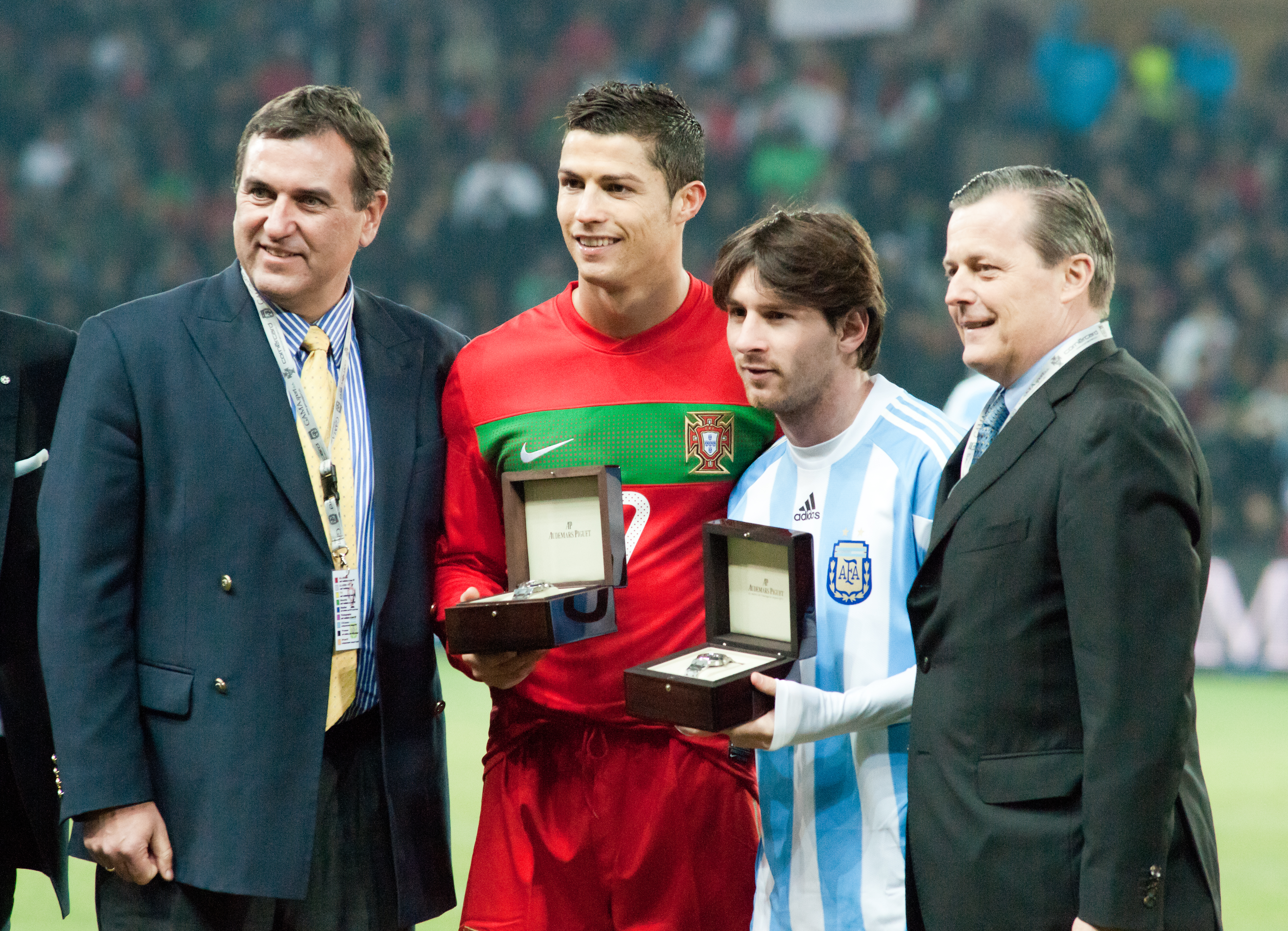 The making of this document was supported by Wikimedia CH. (Submit your project!) For all the files concerned, please see the category Supported by Wikimedia CH.